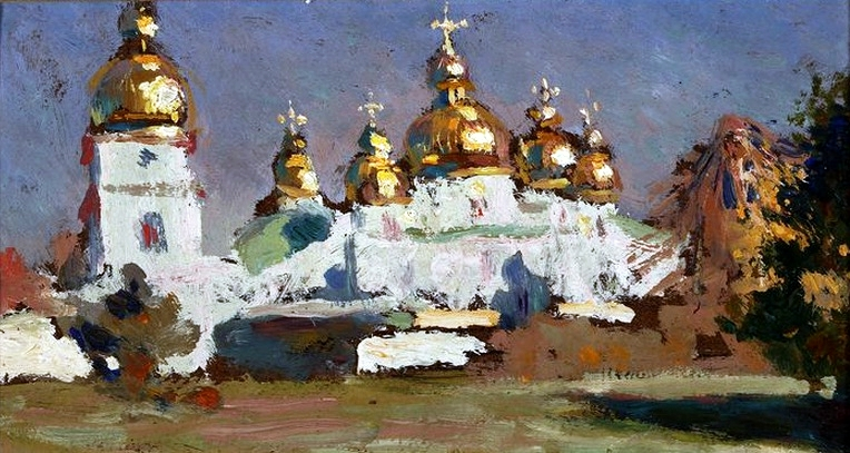 St. Michael's Golden-Domed Monastery in Kiev.